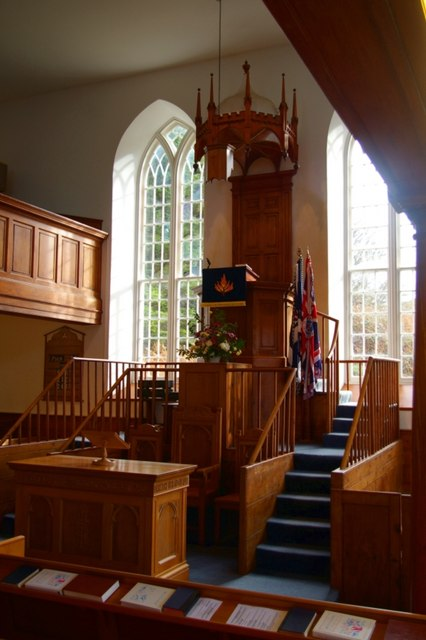 Pulpit and Communion Table in Duirinish Church. One of the highest pulpits of Scotland, with its unusual ogeed tester (or sounding-board), is complemented by the Communion Table dating from 1959, illustrating the church's dual ministry of Word and Sacrament. Between them is the box from which the Precentor used to lead the unaccompanied congregational singing. Now that the church has an organ the box has found a new use as a stand for floral arrangements.